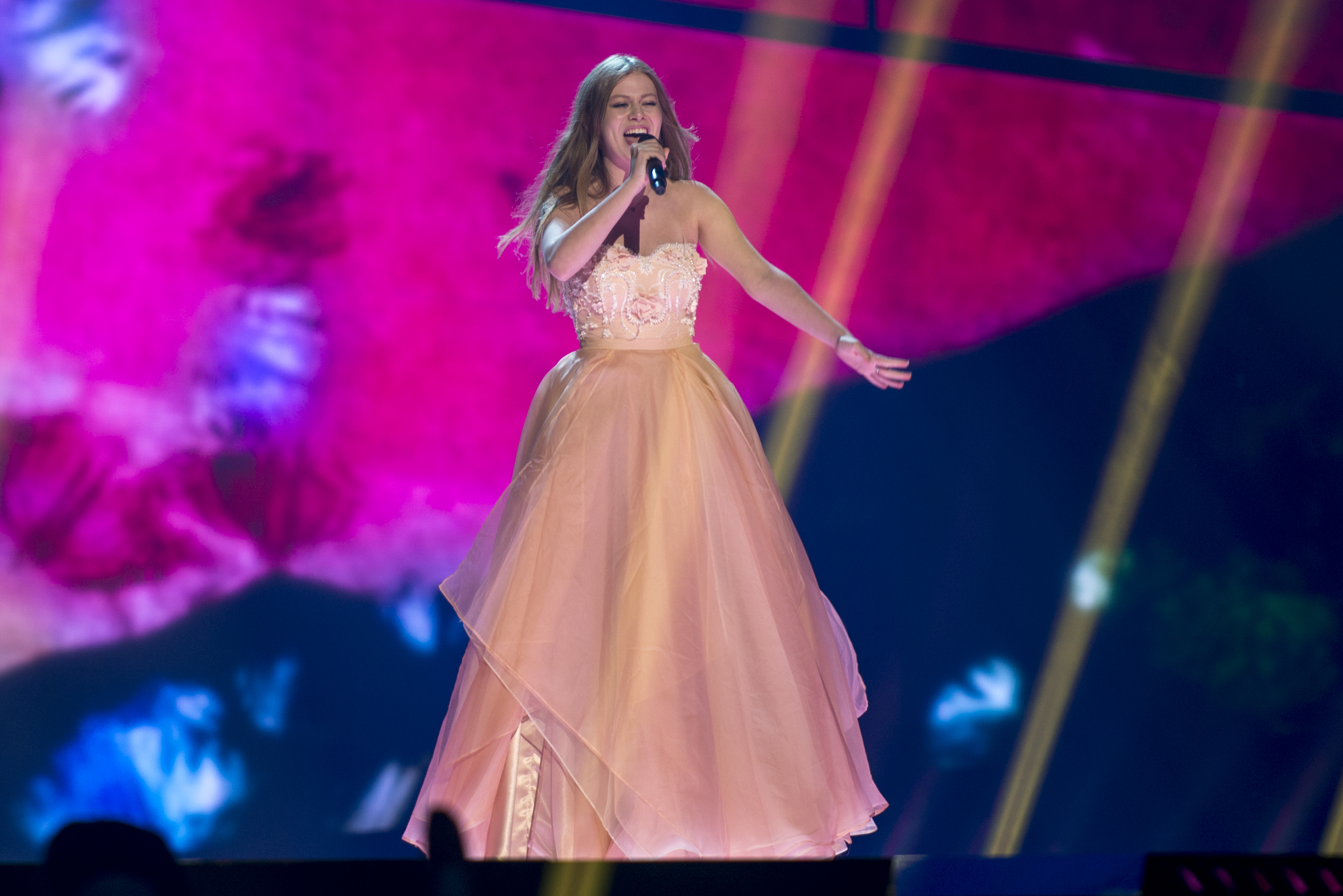 Zoë representing Austria with the song "Loin d'ici" during a rehearsal before the first semi final of the Eurovision Song Contest 2016 in Stockholm. (Help translate this text)